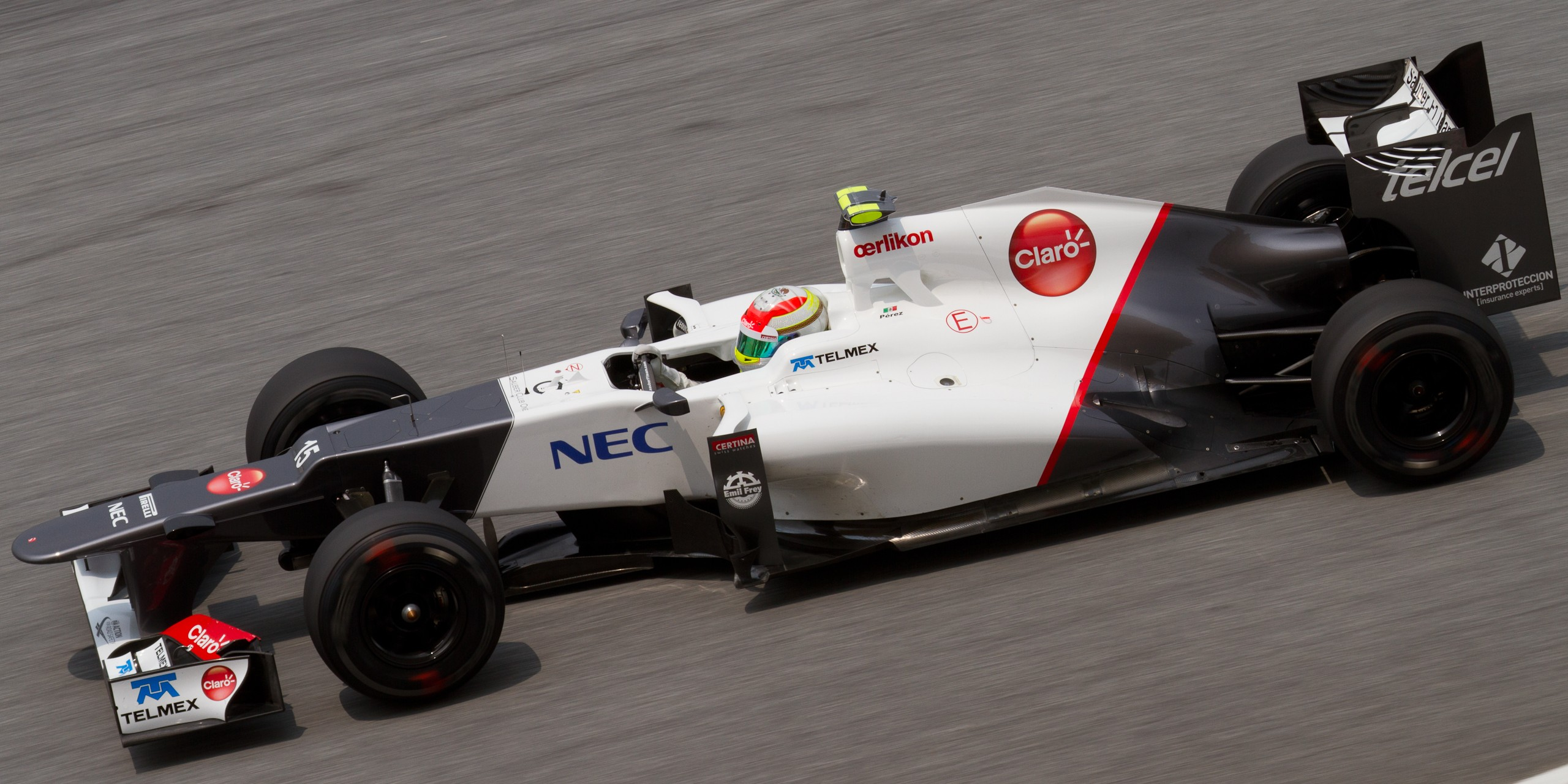 Formula One 2012 Rd.2 Malaysian GP: Sergio Pérez (Sauber) during the second practice session on Friday.